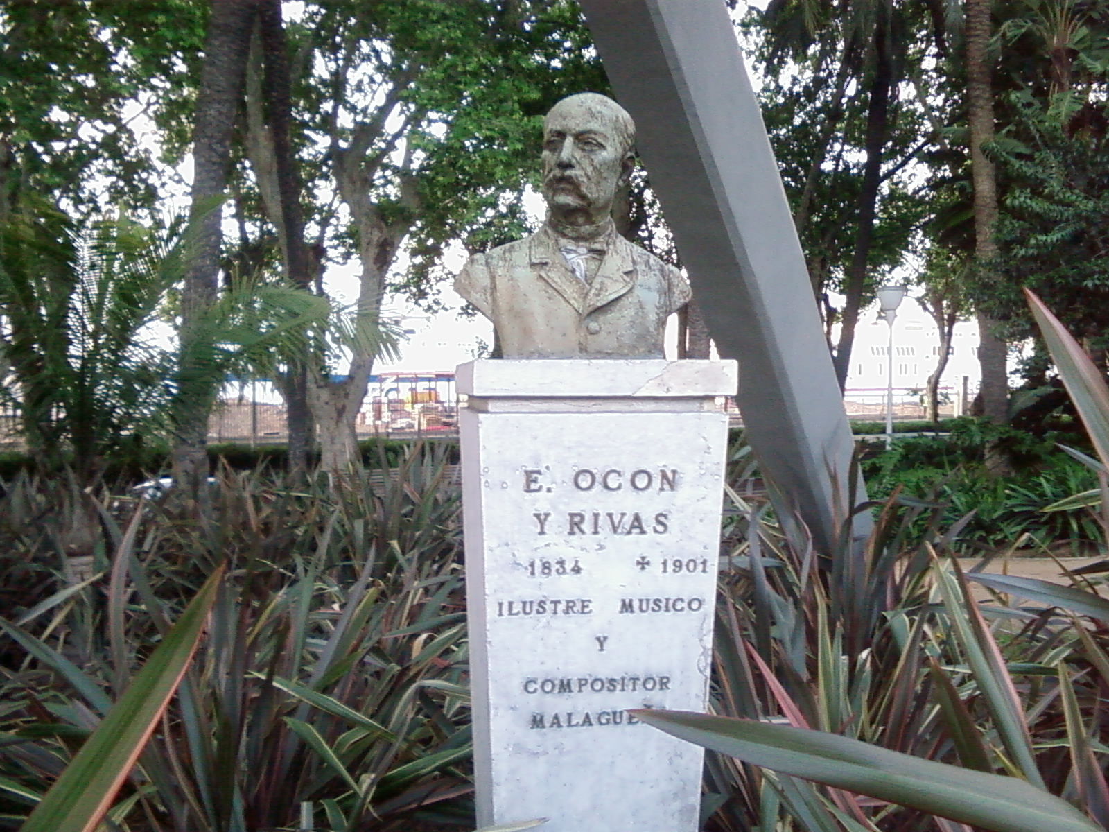 Monument to Eduardo Ocón Rivas (musician and composer) at Málaga Park, Spain